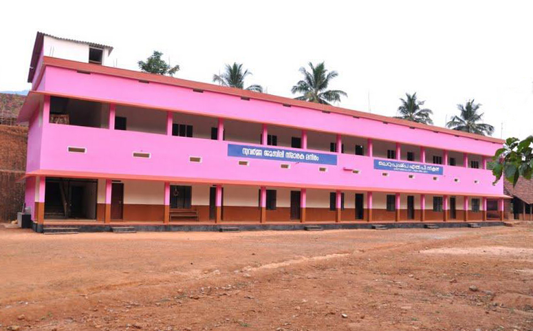 LITTLE FLOWER L.P.SCHOOL CHANDANAKAMPARA ,NEW BUILDING